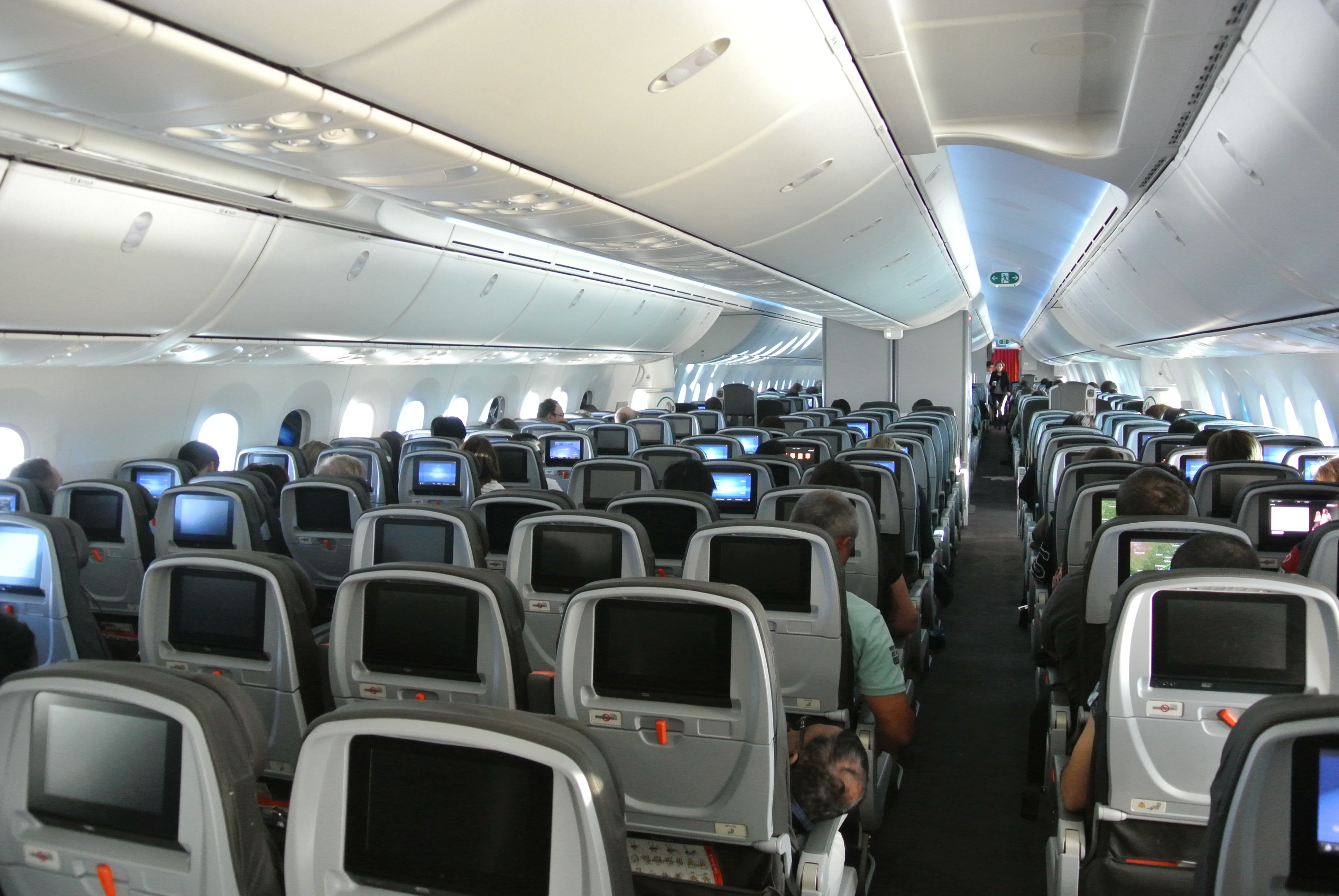 Jetstar 787 JQ35 in flight中文（中国大陆）: 捷星航空787 - JQ35